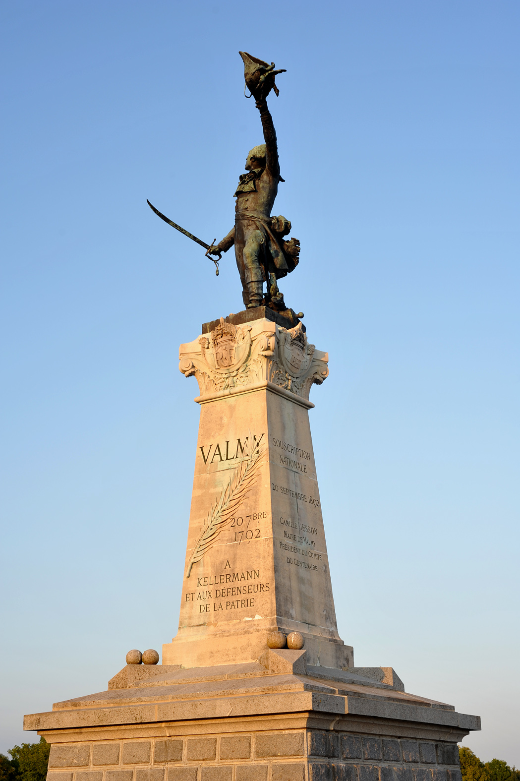 Monument of Marshal François Christophe Kellermann in Valmy; Marne, France.